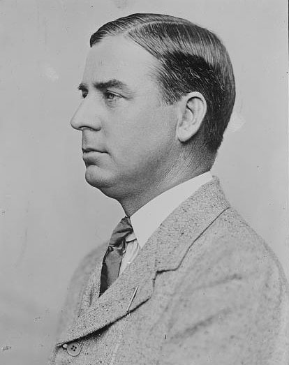 Photograph of Vivian M. Lewis.